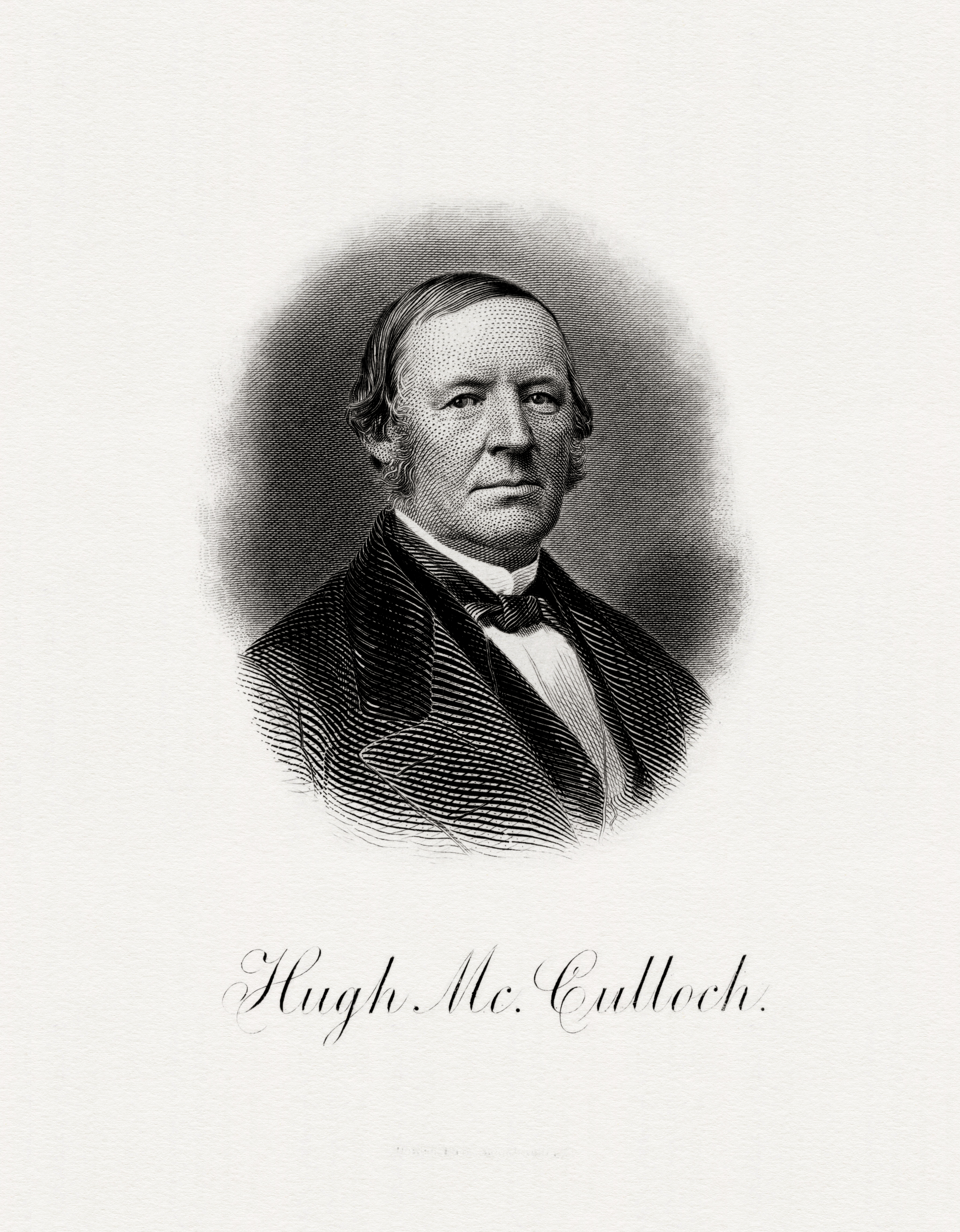 Engraved BEP portrait of U.S. Secretary of the Treasury Hugh McCulloch